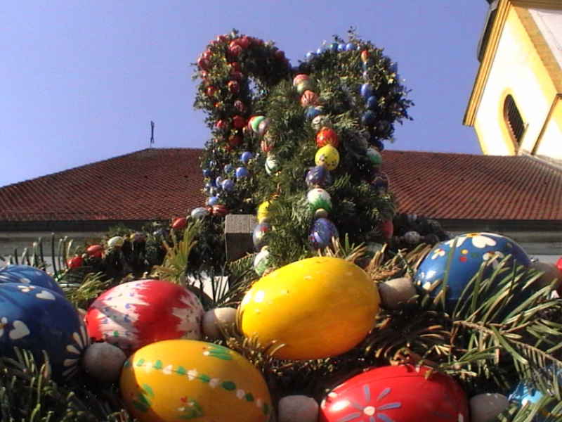 Easter-decorated fountain on market place with view to St Ägidius's Church, Burghaslach, Bavaria, Germany